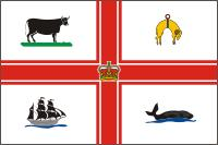 Flag of the city of Melbourne, in Australia